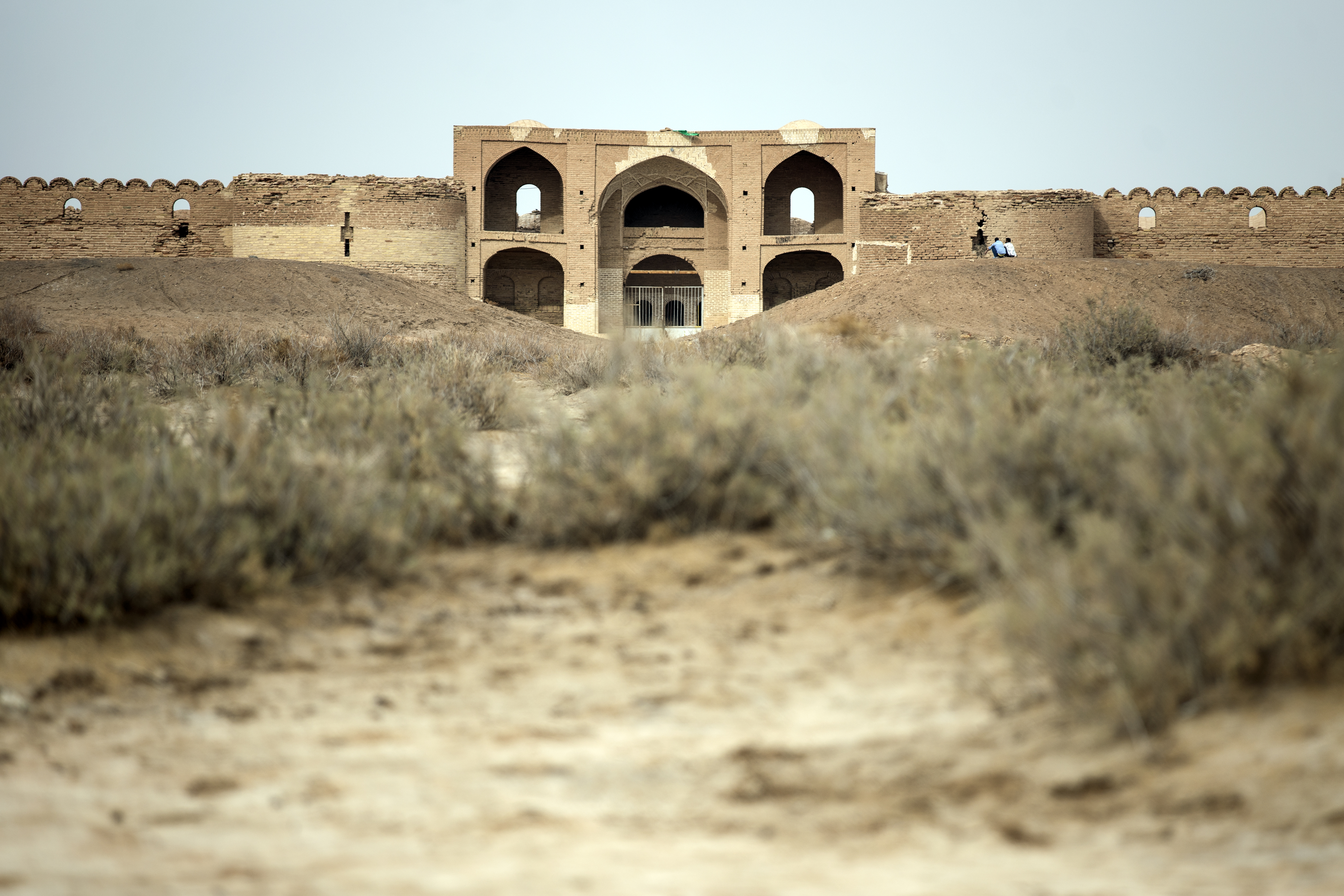 Deir-e Gachin Caravansarai is one of the greatest caravansarais of Iran which is located in the center of Kavir National Park. Its unique qualities is the reason it is called “Mother of Iranian Caravansarais”. It is located in the Central District of Qom County, 80 kilometers north-east of Qom (60 kilometers into Garmsar Freeway) and 35 kilometers south-west of Varamin. This monument was registered in Iran's National Heritage List on September 23, 2003. The structure of this caravanserai belongs to Sasanian era, and restorations took place in Seljuk, Safavid and Qajar eras. Its current form belongs to Safavid era. This caravanserai is situated on the ancient rout from Ray to Isfahan. The structure of this caravansarai is in Seljuki four-iwan form and is 12000 square meters wide. The interior spaces of the caravansarai include human, livestock, service and convenience, and security spaces. There are four circular towers at the corners and two half-oval towers at both sides of the main gate which is situated in the middle of the southern wall. Also, there are 44 rooms or chambers, 4 big halls (stables), mosque, private shabestan, fodder barn, gristmill, bathroom and toilet. The materials used in Deir-e Gachin are brick, lime, adobe and plaster. The mosque of the caravanserai was probably built in the place of the Sasanian fire temple and there are no decorations in it. There are a number of structures around the caravanserai as a collection including two Ab anbars behind the western side and close to the bathroom, a brick furnace, a dam, and a graveyard in the south-western side in which the graves are covered with bricks and that goes back to the Islamic era. There is a brick-clay-made structure in the form of a fort 500 meters east of the caravanserai which has only one entrance gate and its structure goes back to the Qajar era.